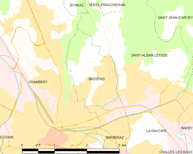 Map of French municipality